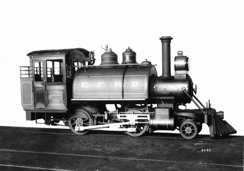 Locomotive Bocaina the E. F. Resende - Bocaina manufactured by The Baldwin Locomotive Works